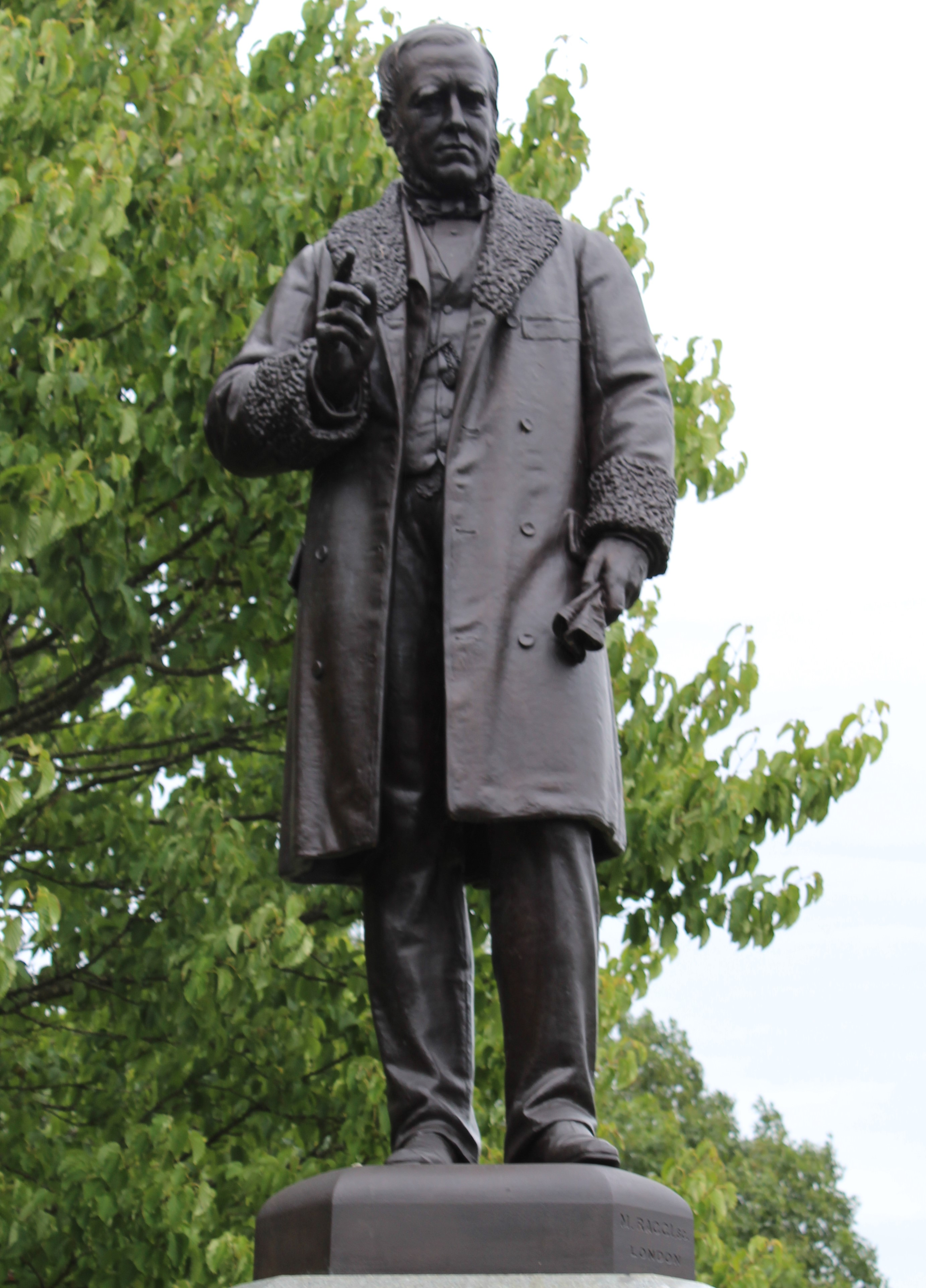 Bronze statue on a granite pedestal of Howel Gwyn, 1889, by Mario Raggi, in Victoria Gardens, Neath, south Wales